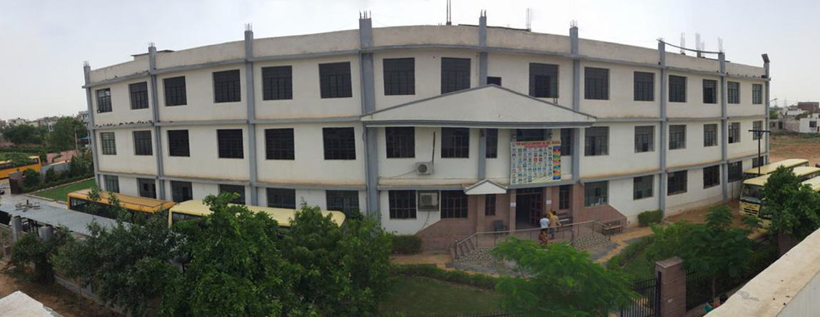 Depicted place: The Castle Convent School